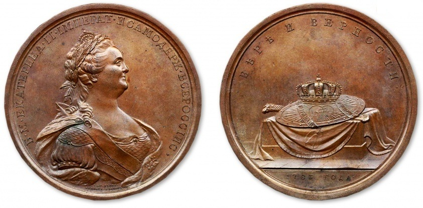 A commemorative of the Treaty of Georgievsk between Russia and Georgia, produced by Timofey Ivanov of the Saint Petersburg Mint in 1790.